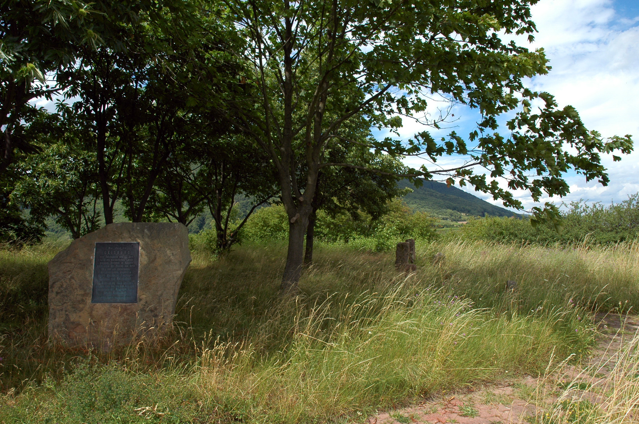 Memorial stone of castle Geisburg on the top of the hill, where it once stood.